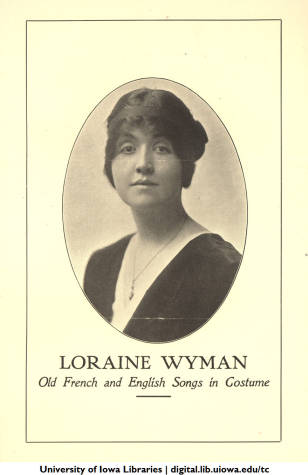 Loraine Wyman, soprano and folksong scholar and revivalist, portrayed in 1914.